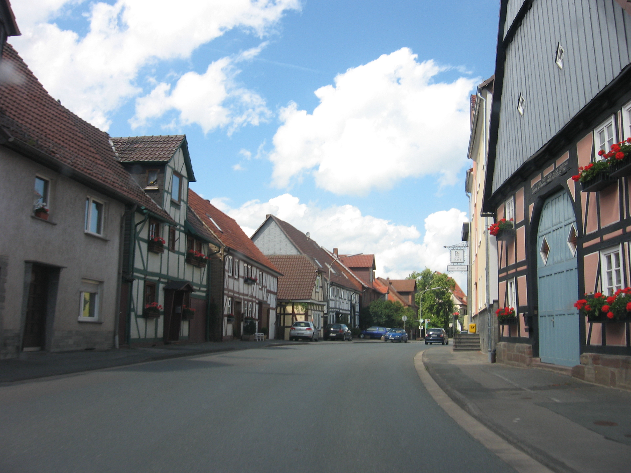 mainstreet Wetterburg